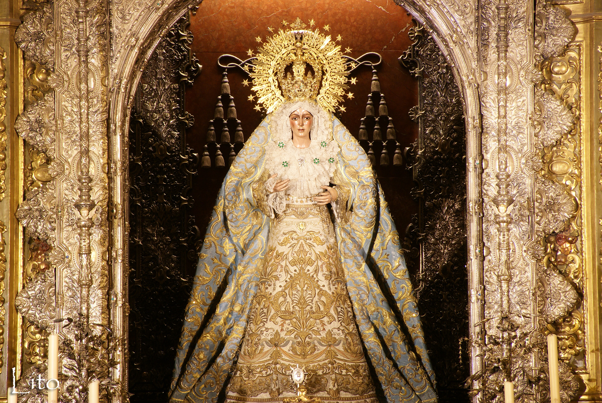 La Macarena en el camarín de su basílica